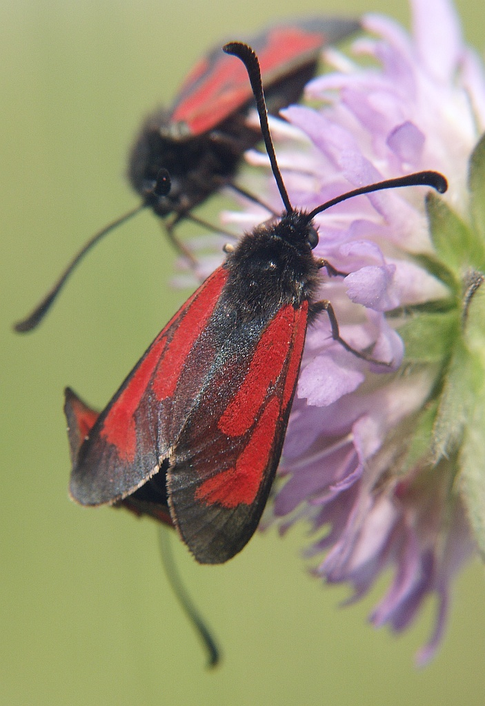 Zygaena minos, Härtsfeld, Germany.The picture was taken in a nature reserve. Literature about this nature reserve says, Zygaena minos can be found there.